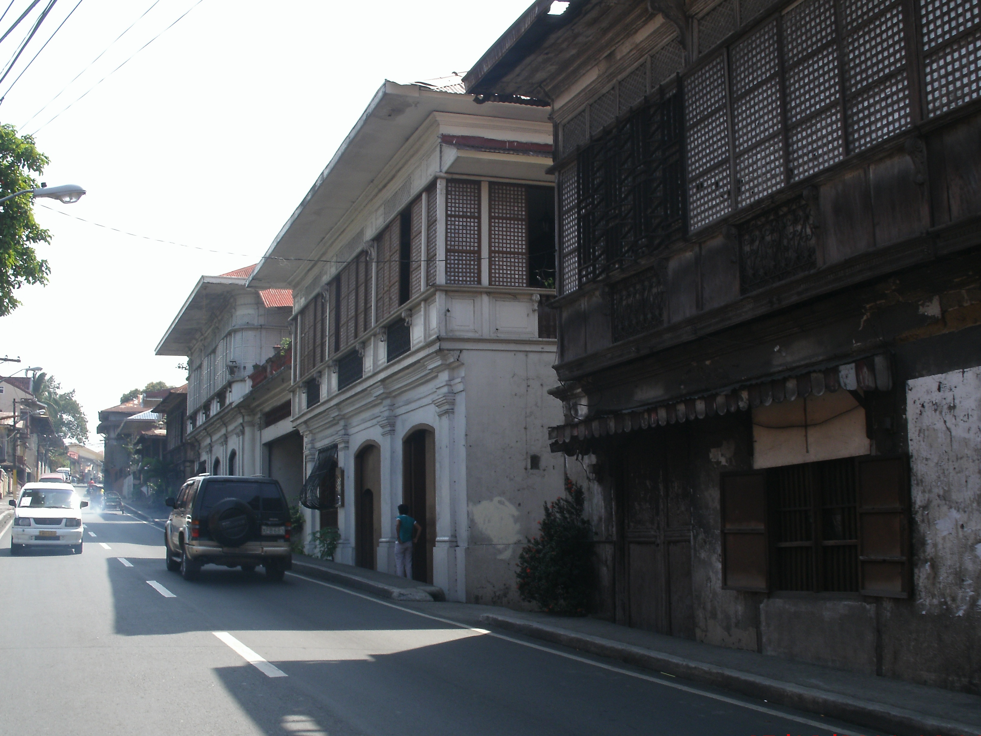 Century-Old Houses Along the Streets of Taal, Batangas